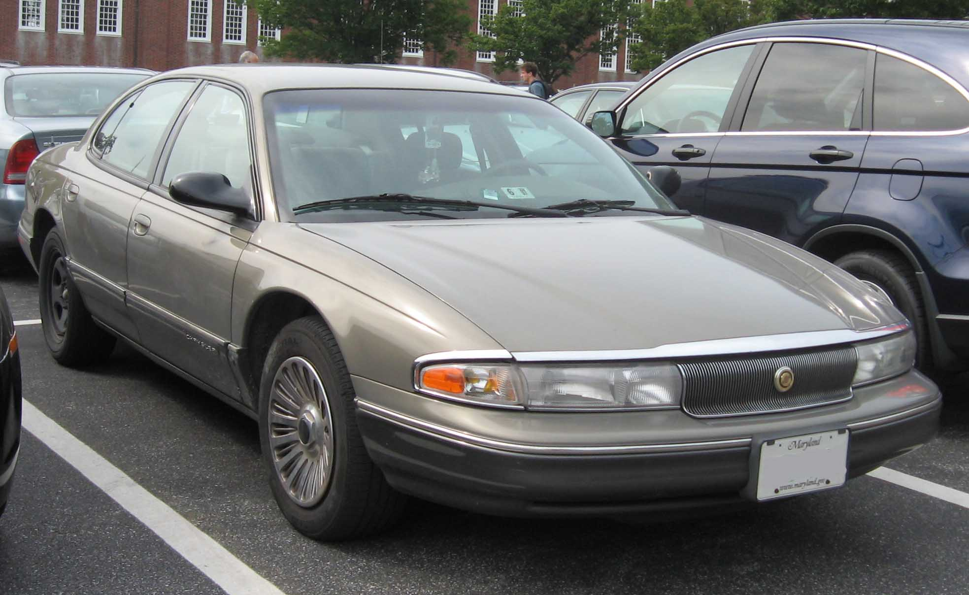 1994-1996 Chrysler New Yorker photographed in College Park, Maryland, USA.